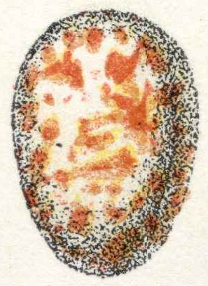 Egg of nuthatch